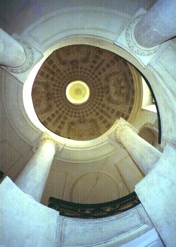 Austria, Vienna, St. Charles's Church